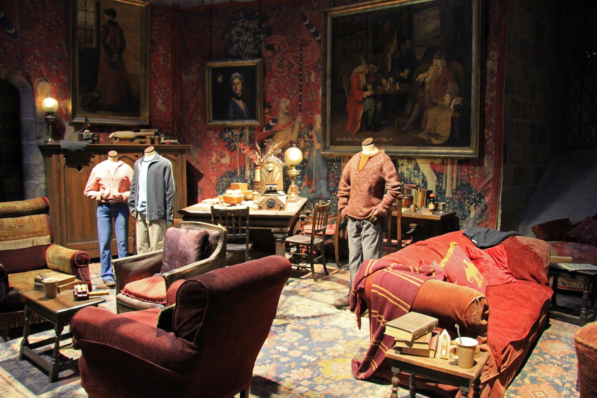 Warner Bros. Studio Tour London: The Making of Harry Potter.